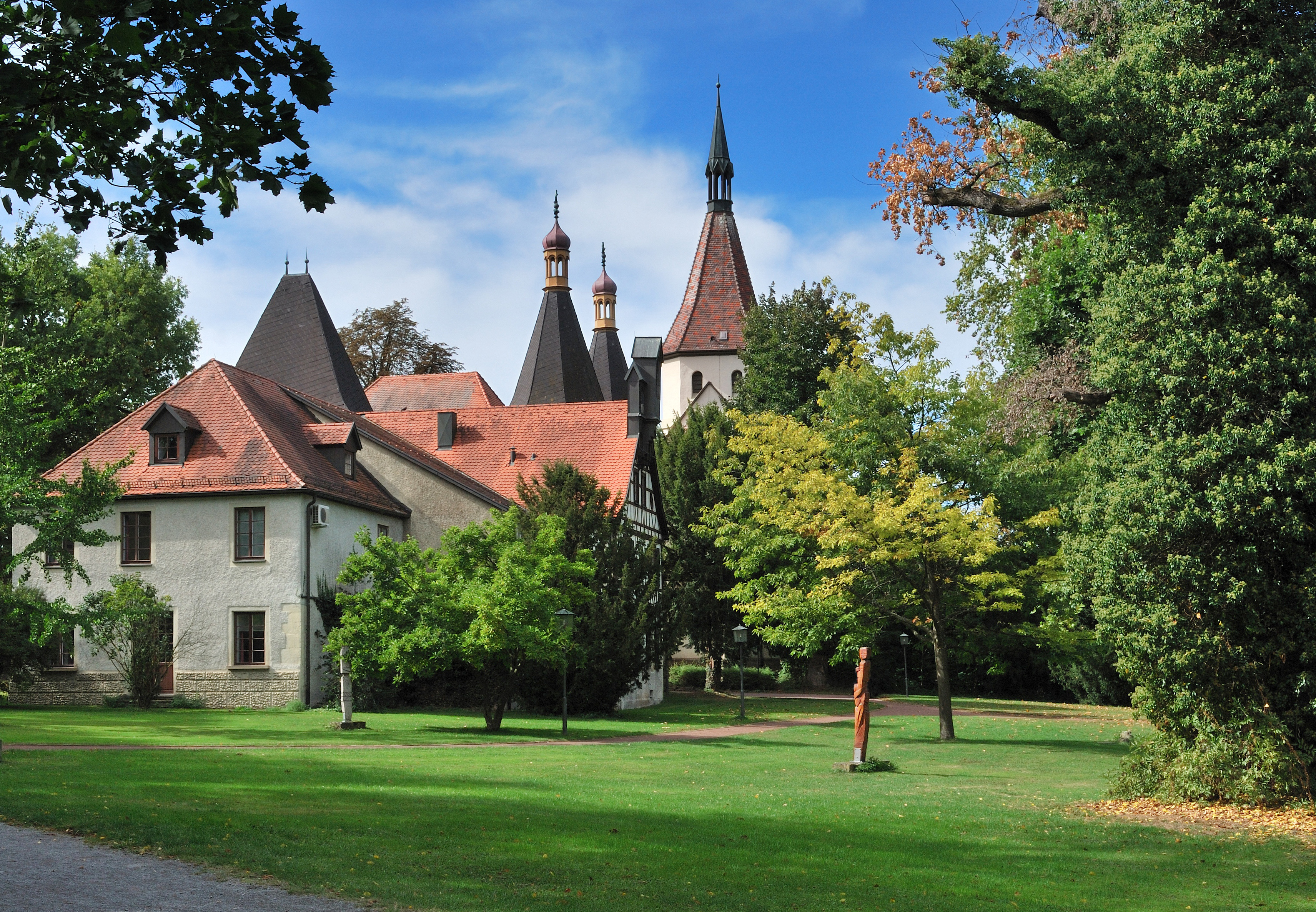 The castle garden in Hemmingen in the German Federal State Baden-Württemberg. In the background is seen the castle Hemmingen and the tower of the protestant Saint Lawrence Church.